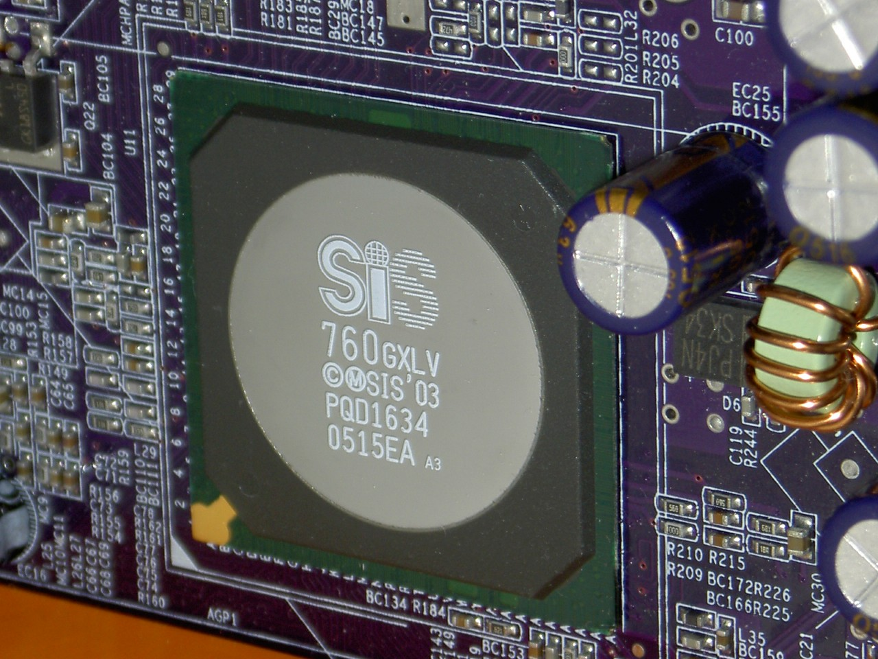 SiS 760GX(LV) Mirage2 Chipset